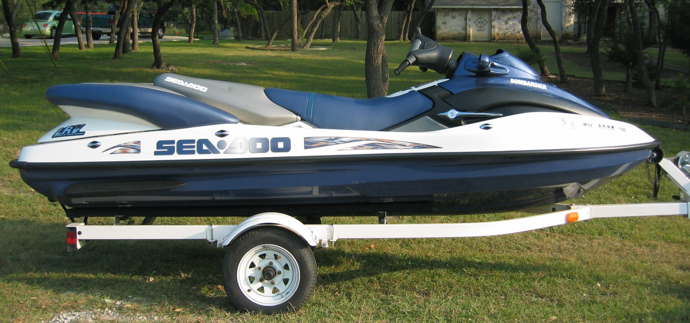 Ar over thirteen feet (3.95m) in length, the Sea Doo LRV is the largest Personal water craft ever mass-produced.